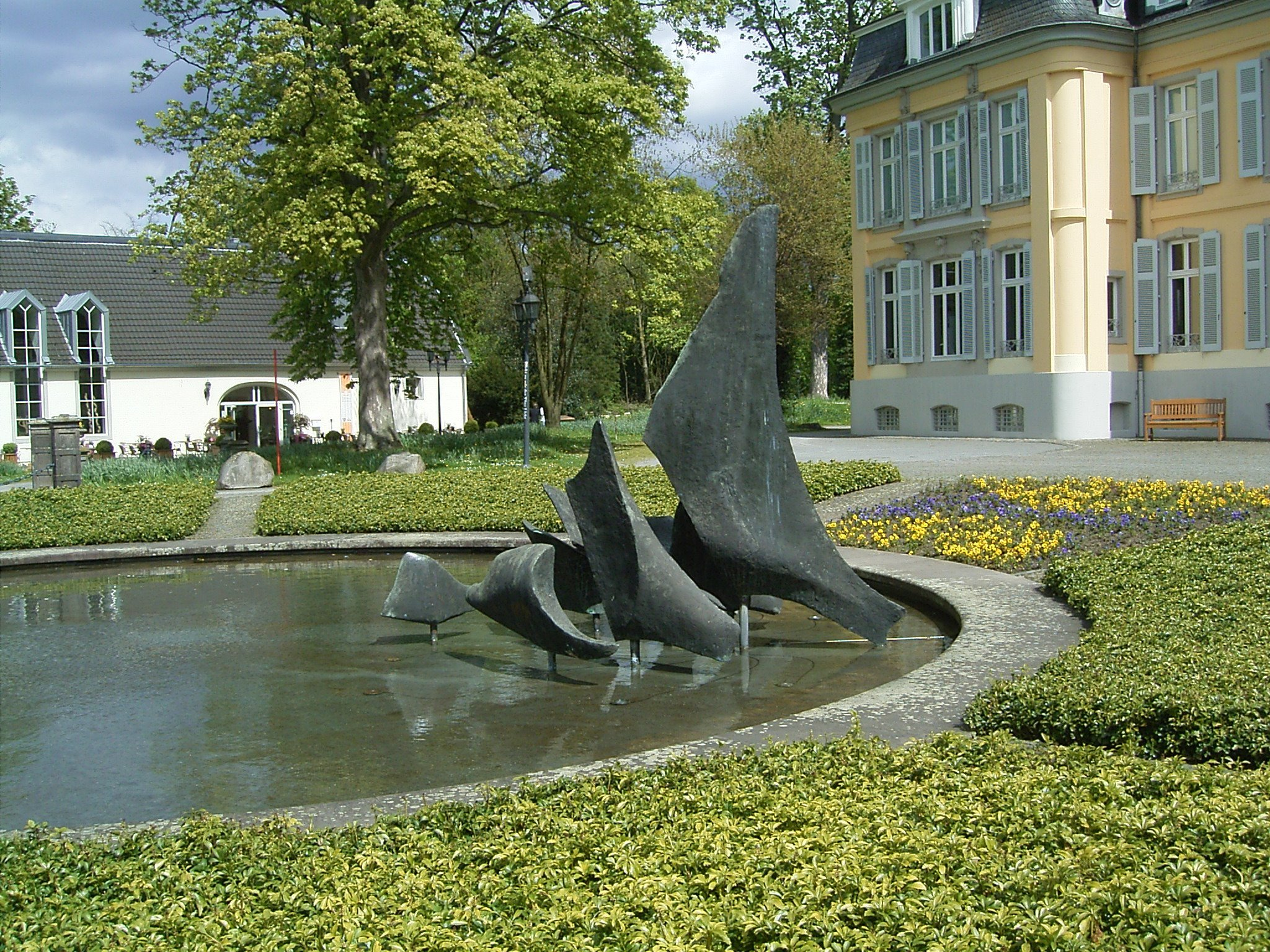 Schloss Morsbroich in Leverkusen/Germany: Fontaine monumentale by Alicia Penalba